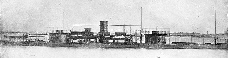 United States monitor Agamenticus after the installation of a Hurricane Deck.